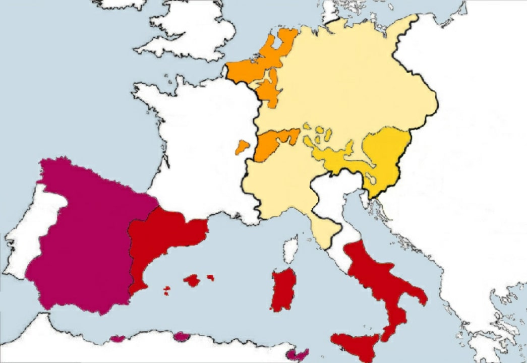 Map of the empire of Roman Emperor Charles V, as king of Spain Charles I. Castille Aragon Burgundian possessions Austrian hereditary lands Holy Roman Empire